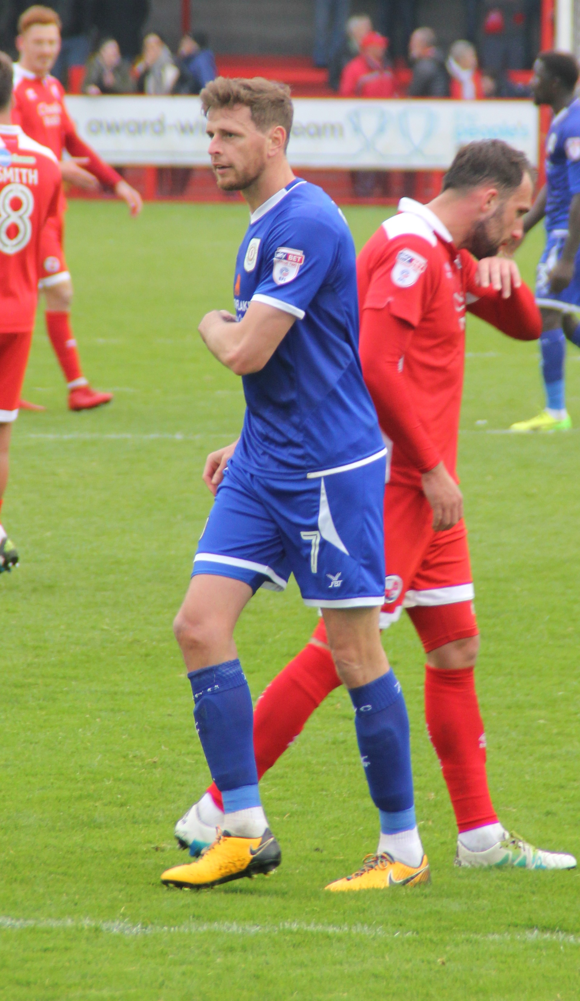 Chris Porter playing for Crewe Alexandra at Crawley Town, 28 April 2018.